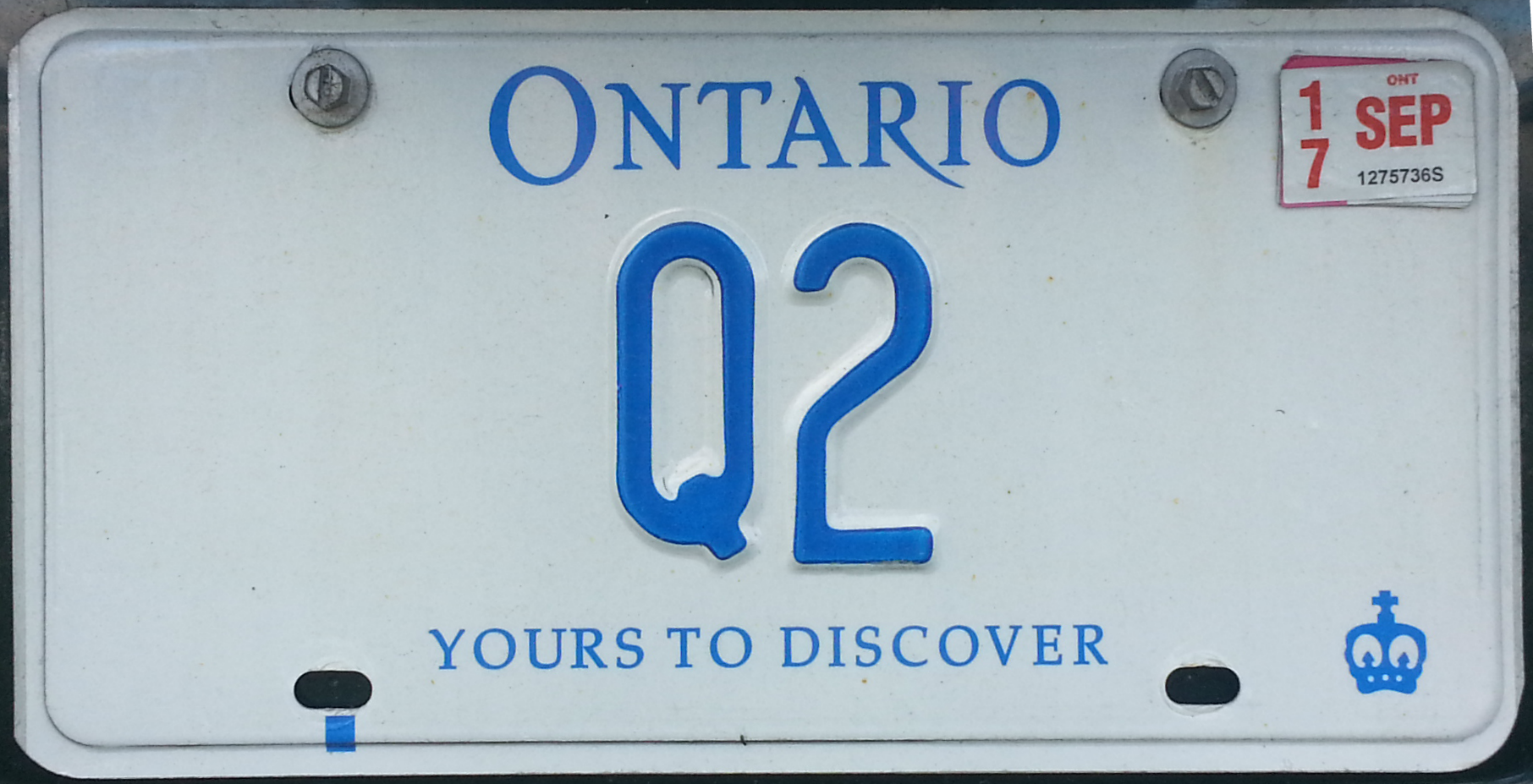 Ontario license plate. Personalised license plate with two characters, the minimum possible on an Ontario personalised plate.